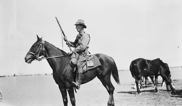 Probably PALESTINE. ?1916. A MOUNTED TROOPER, OF THE 6TH AUSTRALIAN LIGHT HORSE REGIMENT.